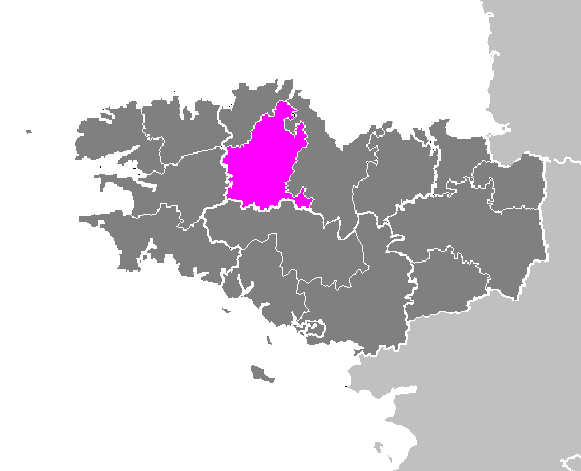 Maps of arrondissements and cantons of France: Arrondissement de Guingamp.PNG